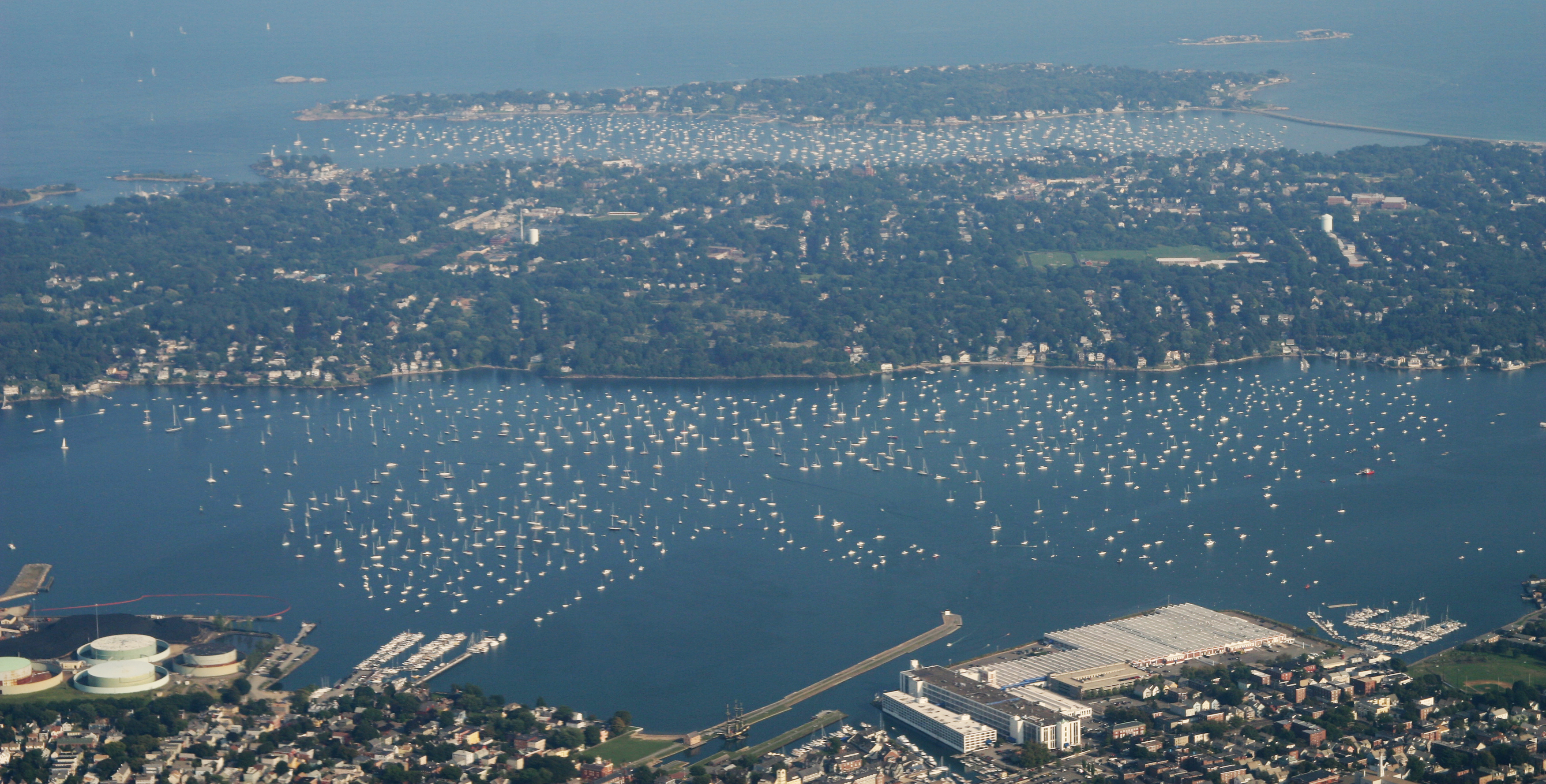 Aerial view of Salem Willows in Salem, Massachusetts. The shot centers on Salem Willows in Salem, Mass. Collins Cove is on this side. Marblehead and Marblehead Harbor and Marblehead Neck are beyond.